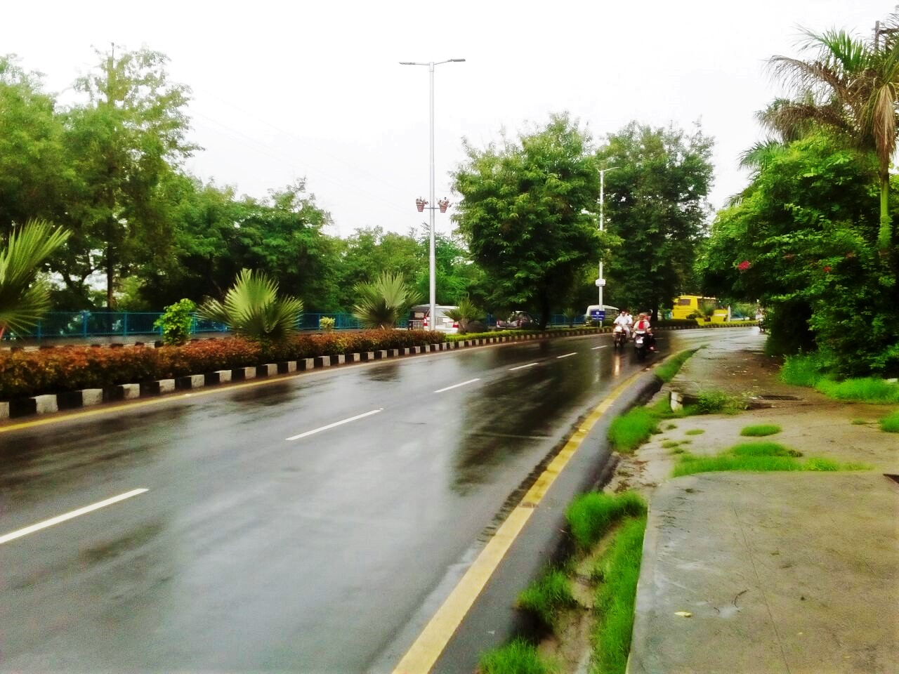 View of VIP road in Bhopal